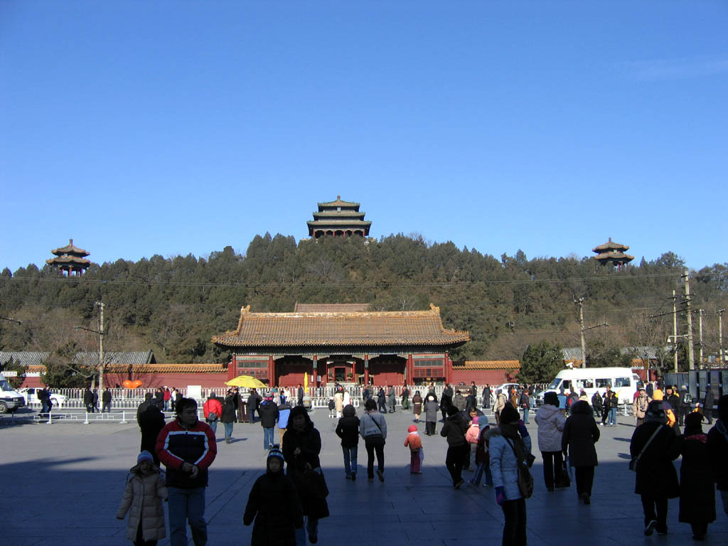 Jingshan Park, directly behind the Forbidden City or Forbidden Palace (Chinese: 紫禁城; pinyin: zǐ jìn chéng; literally "Purple Forbidden City"), located at the exact center of the ancient City of Beijing, the imperial palace during the mid-Ming and the Qing dynasties.